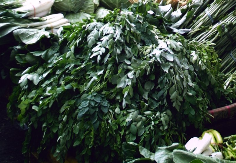 Moringa leaves, for sale in a market in Baguio City, Philippines